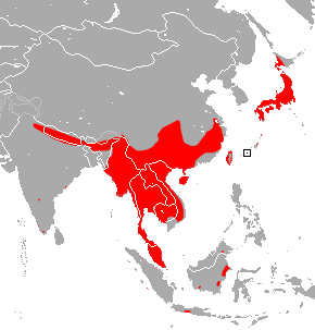 Least Horseshoe Bat (Rhinolophus pusillus) range (red — extant, black — extinct)